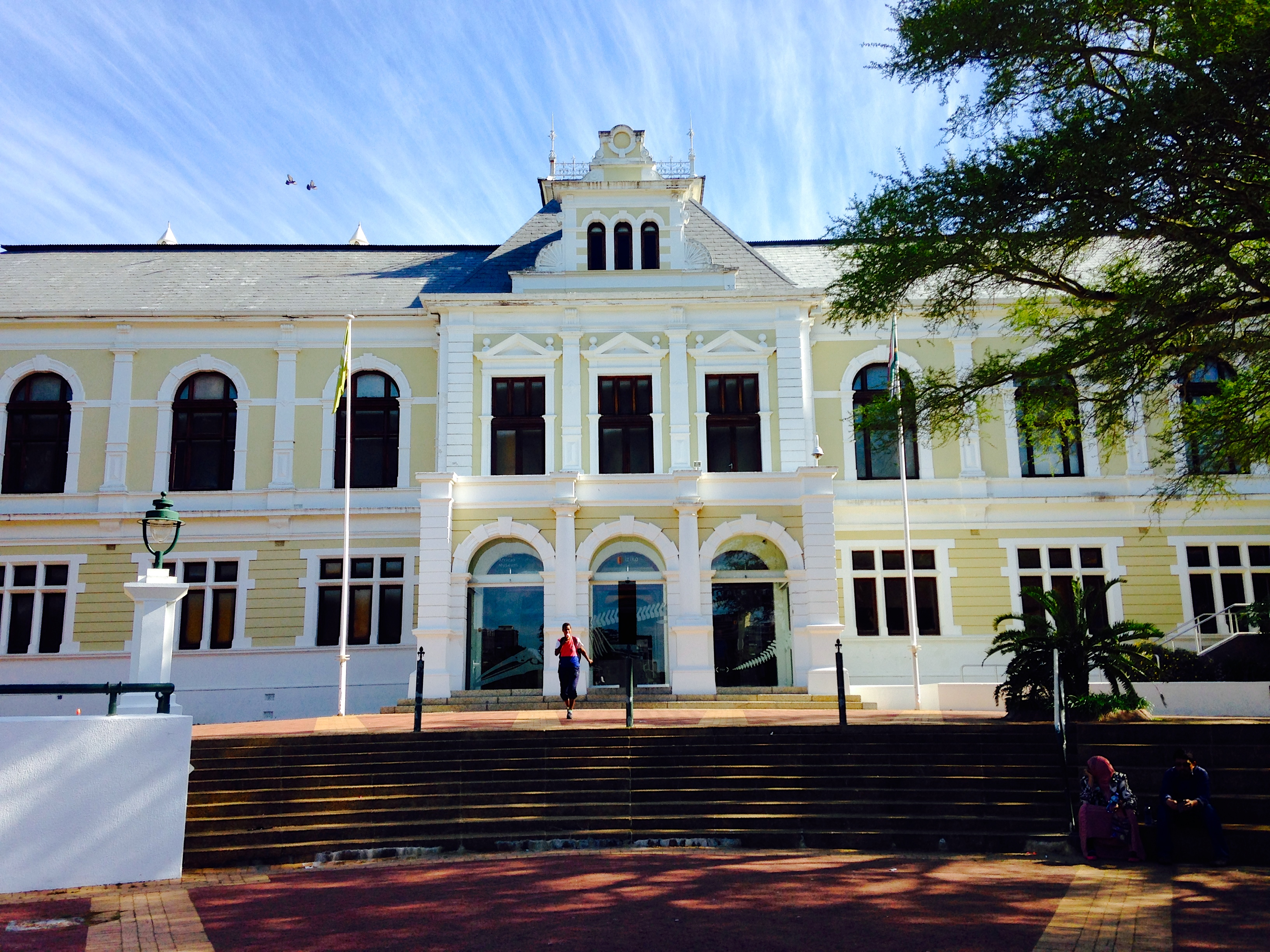 This media shows a South African Protected Site with SAHRA file reference 9/2/018/0149.